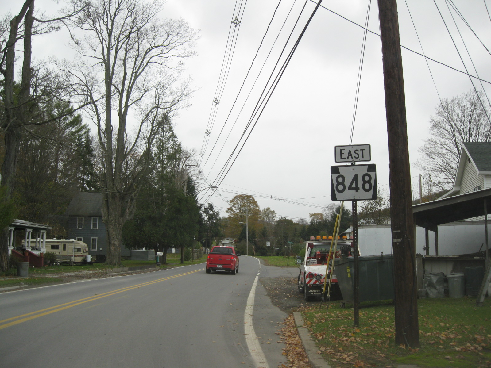 State Route 848 heading eastbound through New Milford Township, Pennsylvania.The highway is heading east through Gibson as a two-lane residential roadway.